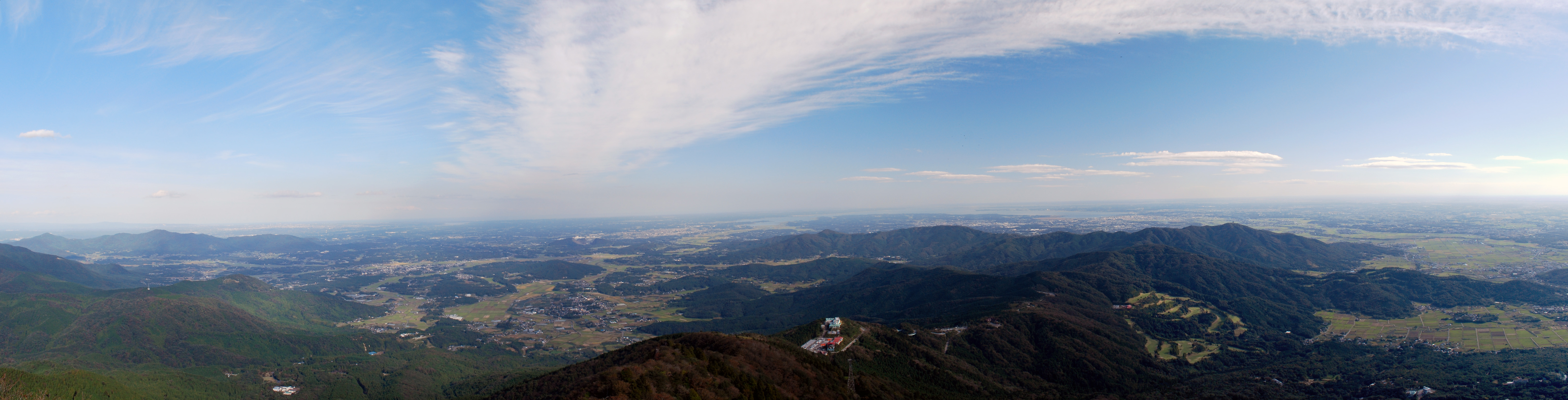 Panoramic view from Mount Tsukuba to the NE-S